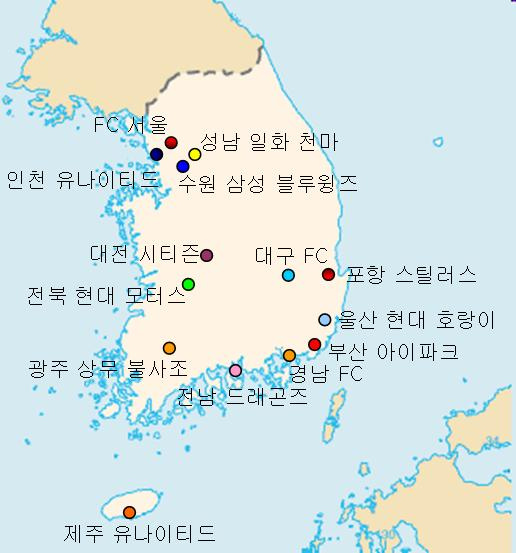 Location of K-League Clubs. (2008)